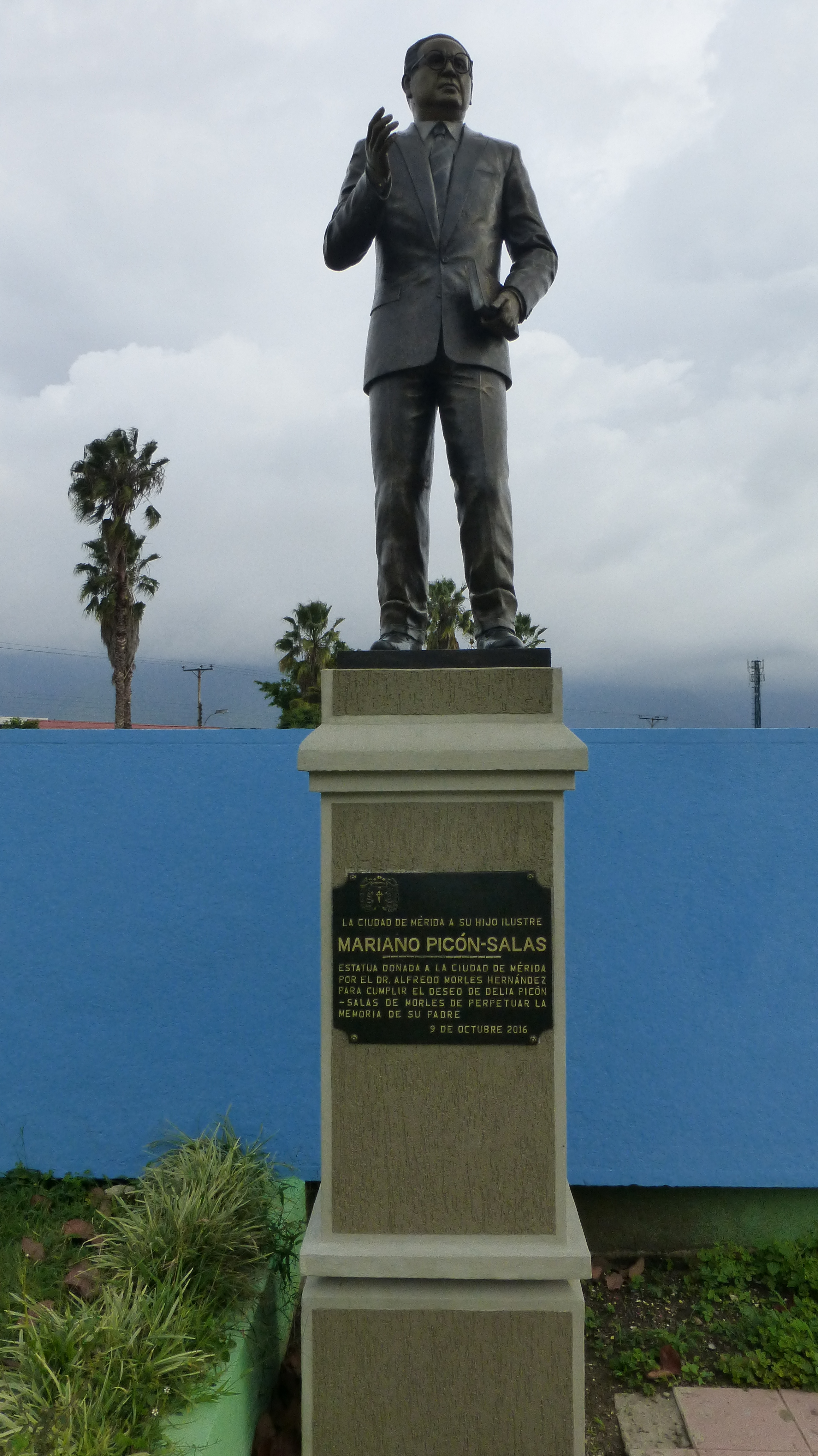 Estatua de Mariano Picón Salas en Mérida.